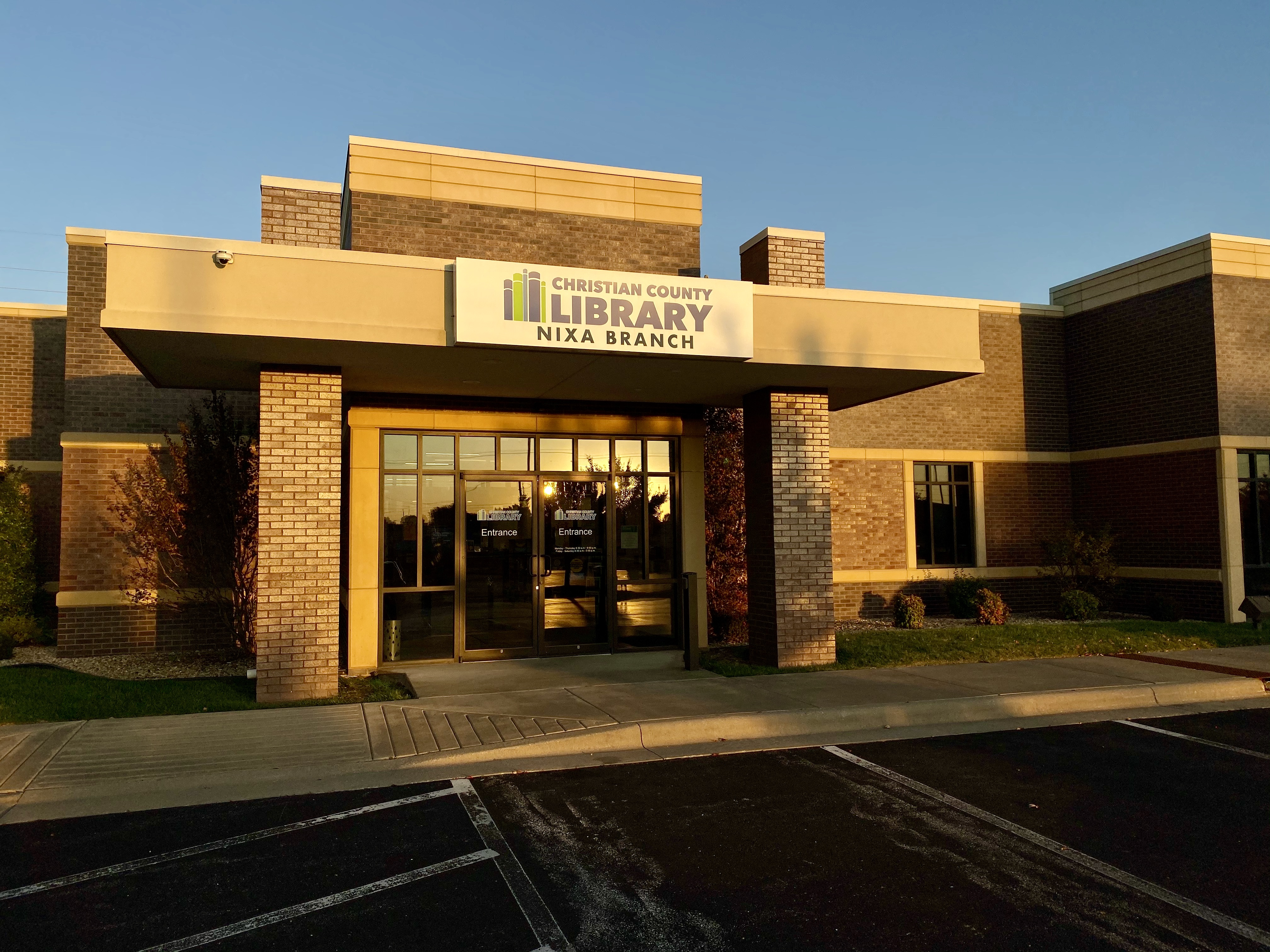 The front of the Nixa branch library is depicted. The library is brick and immediately meets a parking lot.